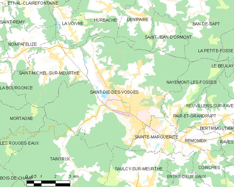 Map of French municipality Saint-Dié-des-Vosges